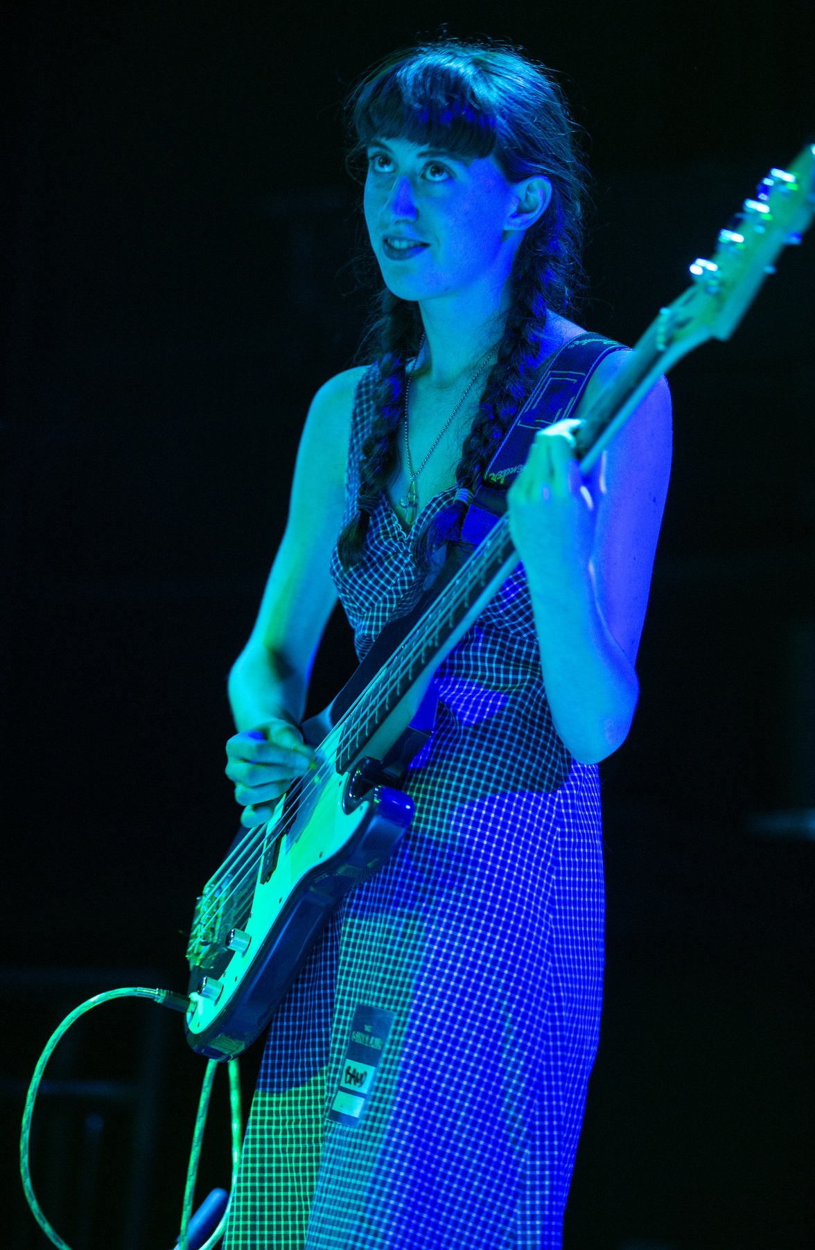 Frankie Cosmos performing with Porches at Cambridge, MA.